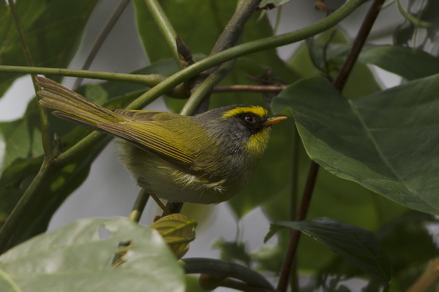 The species Black-faced Warbler had been photographed from Neora Valley National Park in West Bengal, India on 15.04.2016. during the birding tour of GoingWild.